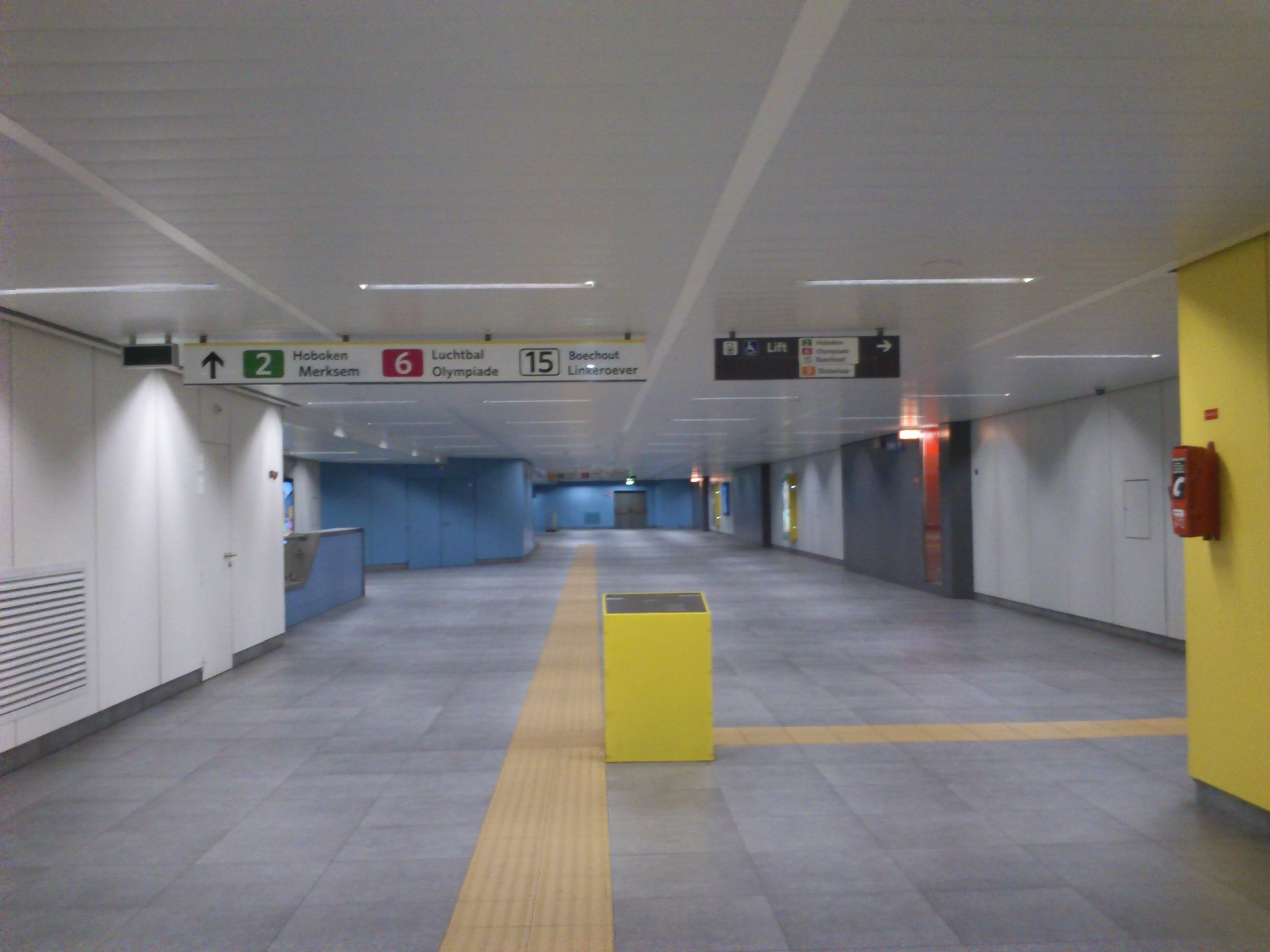 A corridor from the Antwerp premetrostation Diamant (Diamondà.